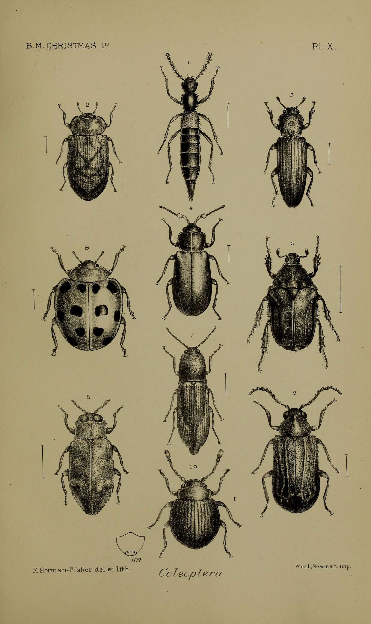 B.M.CHRISTMAS 1°. Pl.X /o? M.Horman-Fisher del.el.lith. Col eopi'er(( WesljNewman. imp.